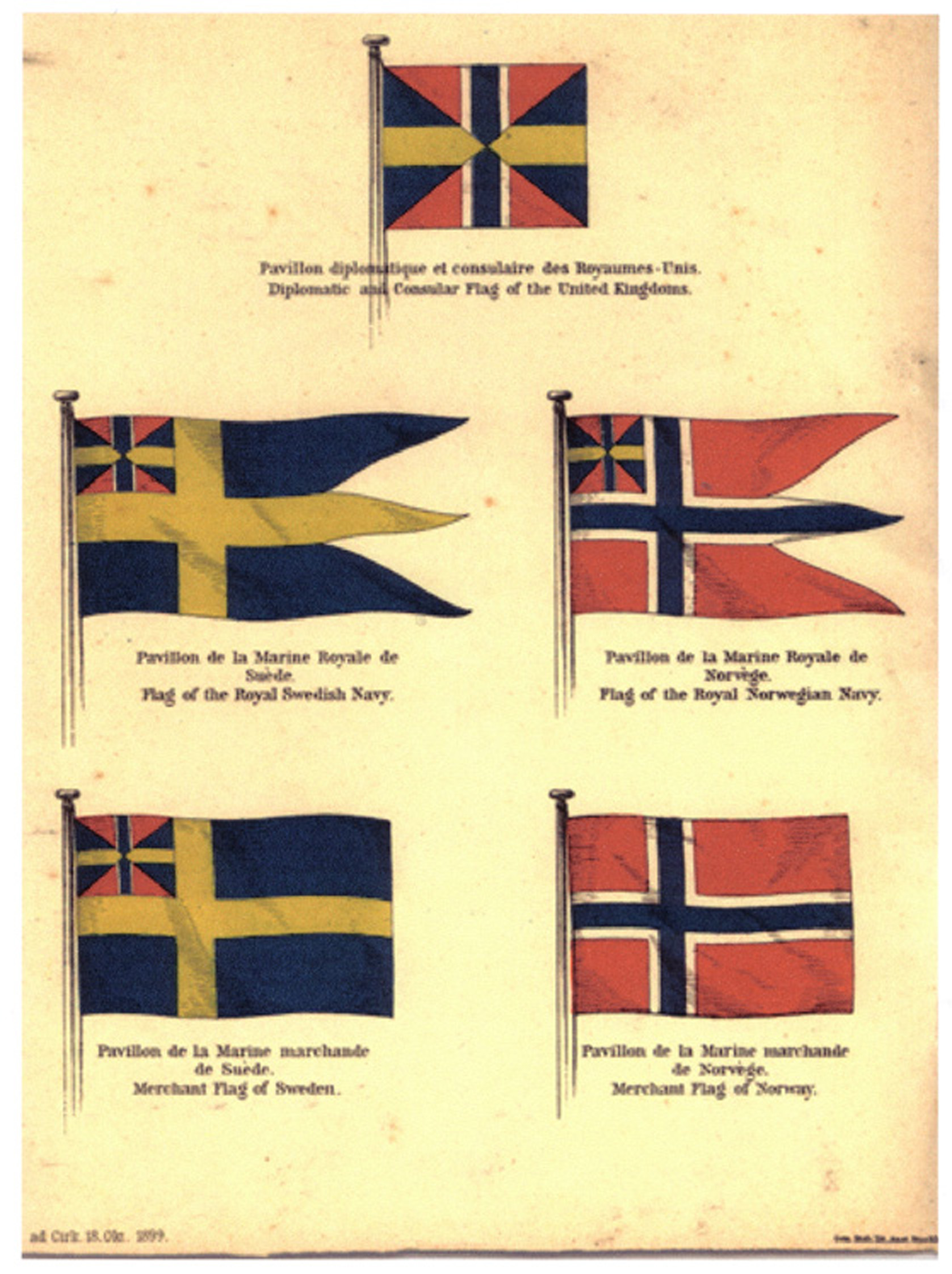 Flags of Sweden and Norway in 1899